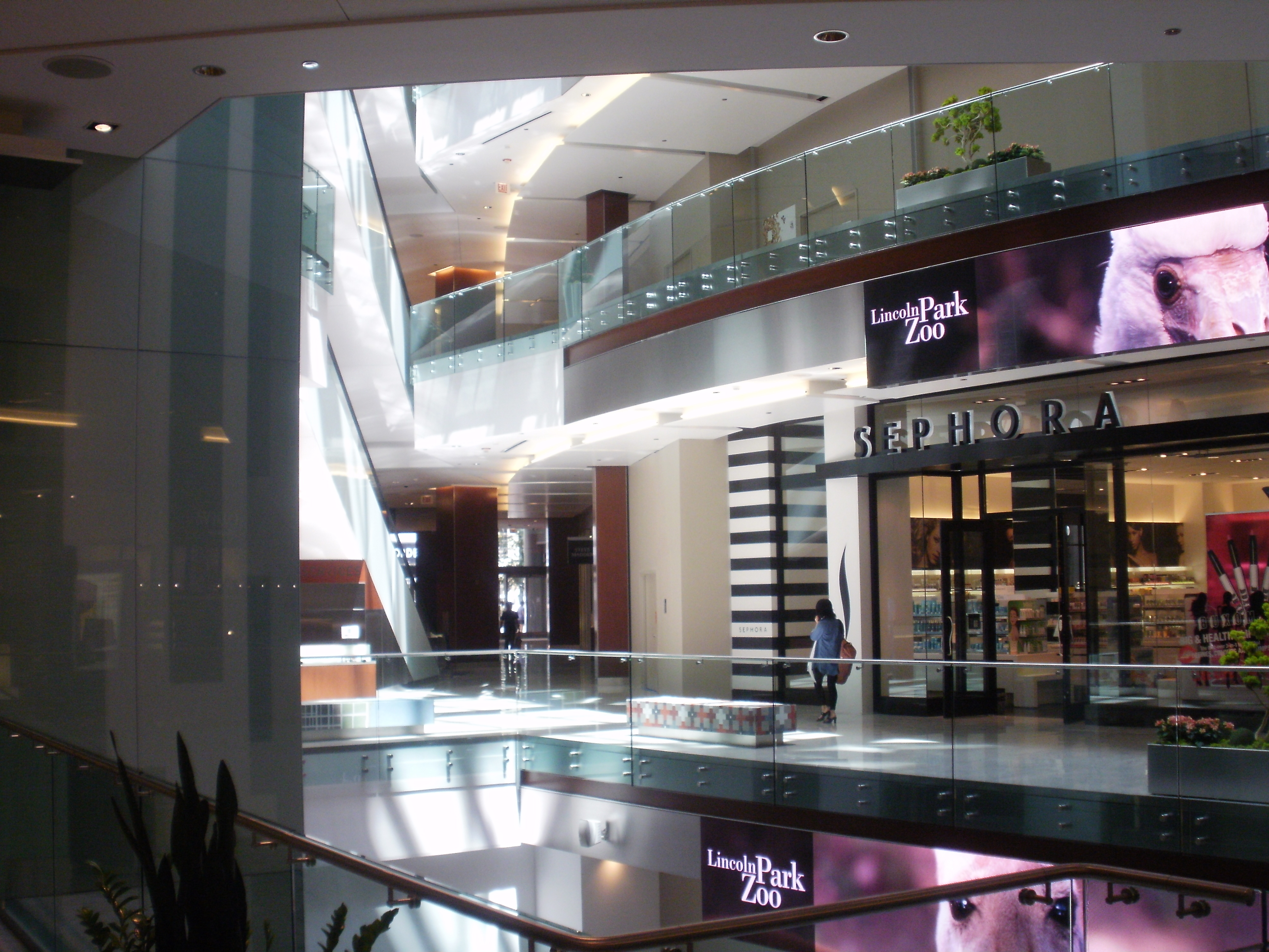 The first floor interior of 108 North State Street.